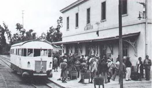 Photo of Asmara Railway Station in 1938, from my grandfather album. I have done a digital photo of it, and cut it with my software. The photo shows people travelling on a "Littorina" in 1938 Italian Eritrea.